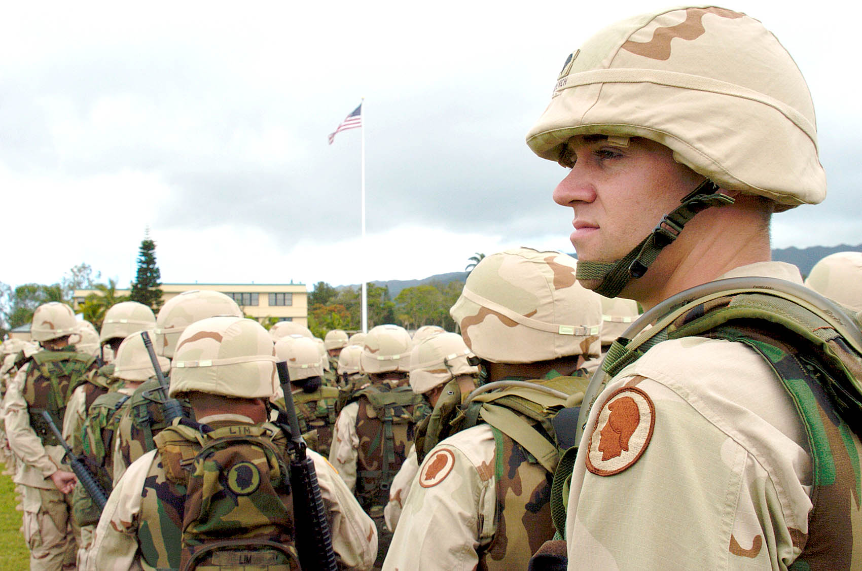 Original image caption text: Soldiers from the Hawaii Army National Guard and the Army Reserves who are deploying also participated in the ceremony. US Army Photo by Spc. Daniel P. Kelly